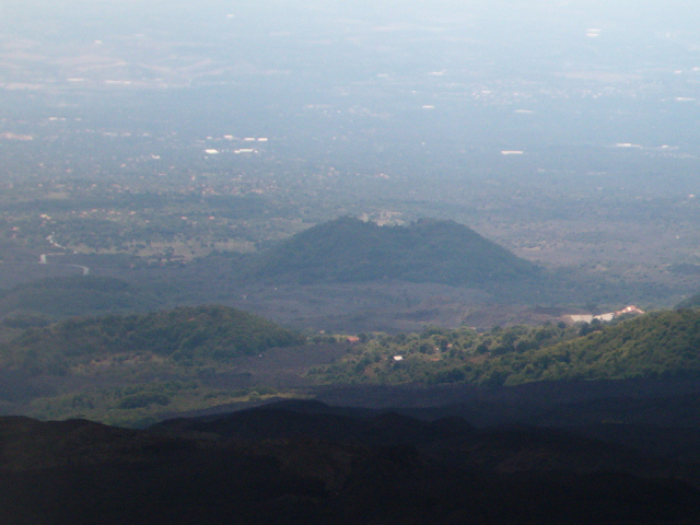 Mount Etna: the lateral cones named by locals Sophia Loren's Breasts